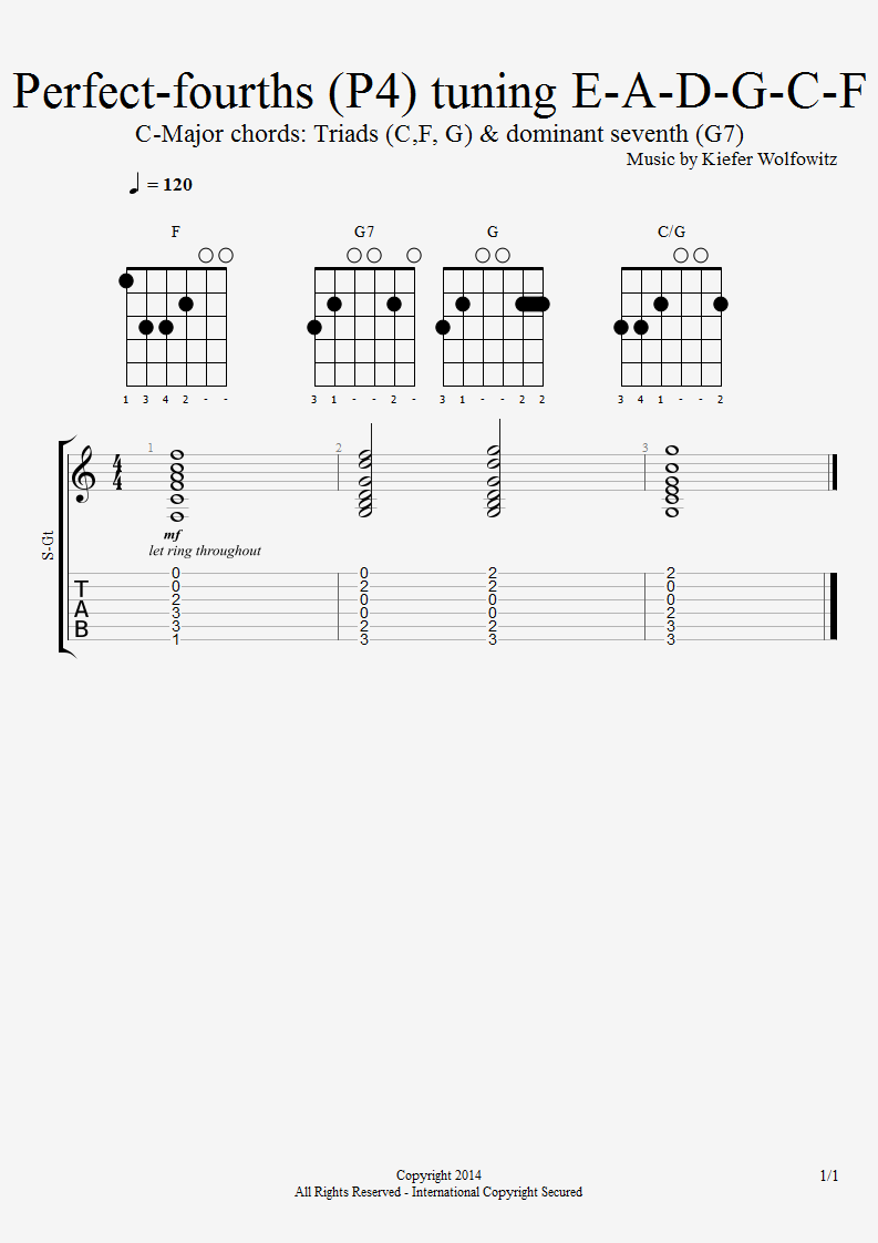 Open chords for all perfect-fourths tuning (P4 tuning) for six-string guitar E-A-D-G-C-F in the key of C major: Major triads (C major, F major, and G major) and major-minor seventh with dominant function (dominant seventh G7).